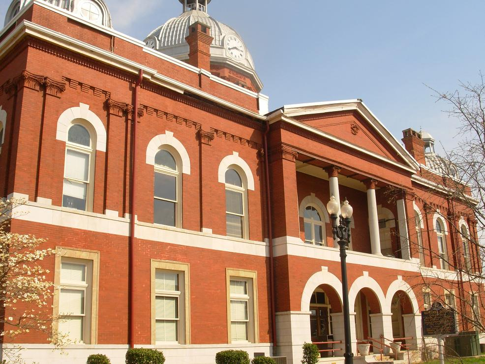 The Chambers County Courthouse in La Fayette is featured prominently in the 1988 movie, Mississippi Burning. Rivers Langley